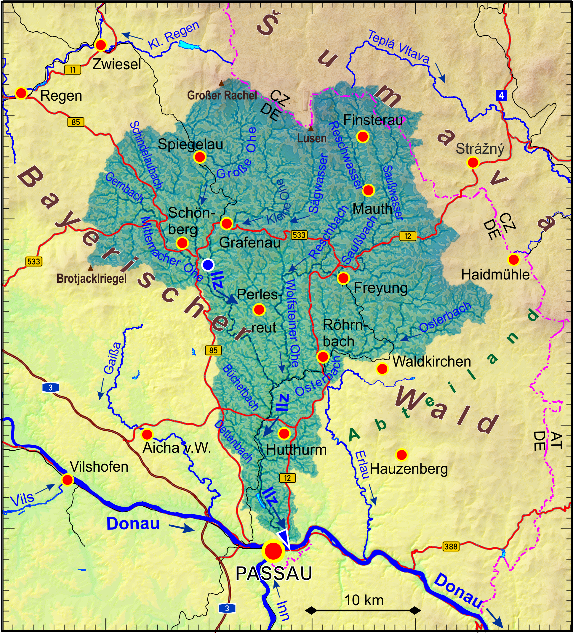 Catchment area of the Ilz (Danube), emphasized, and the topography (spatial resolution 50 m and elevation steps of 100 m).